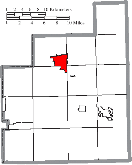 Map of the municipal and township boundaries of Geauga County, Ohio, United States, as of the 2000 census, with the location of the city of Chardon highlighted. Township borders are shown only in unincorporated areas in order to differentiate incorporated and unincorporated areas more clearly.